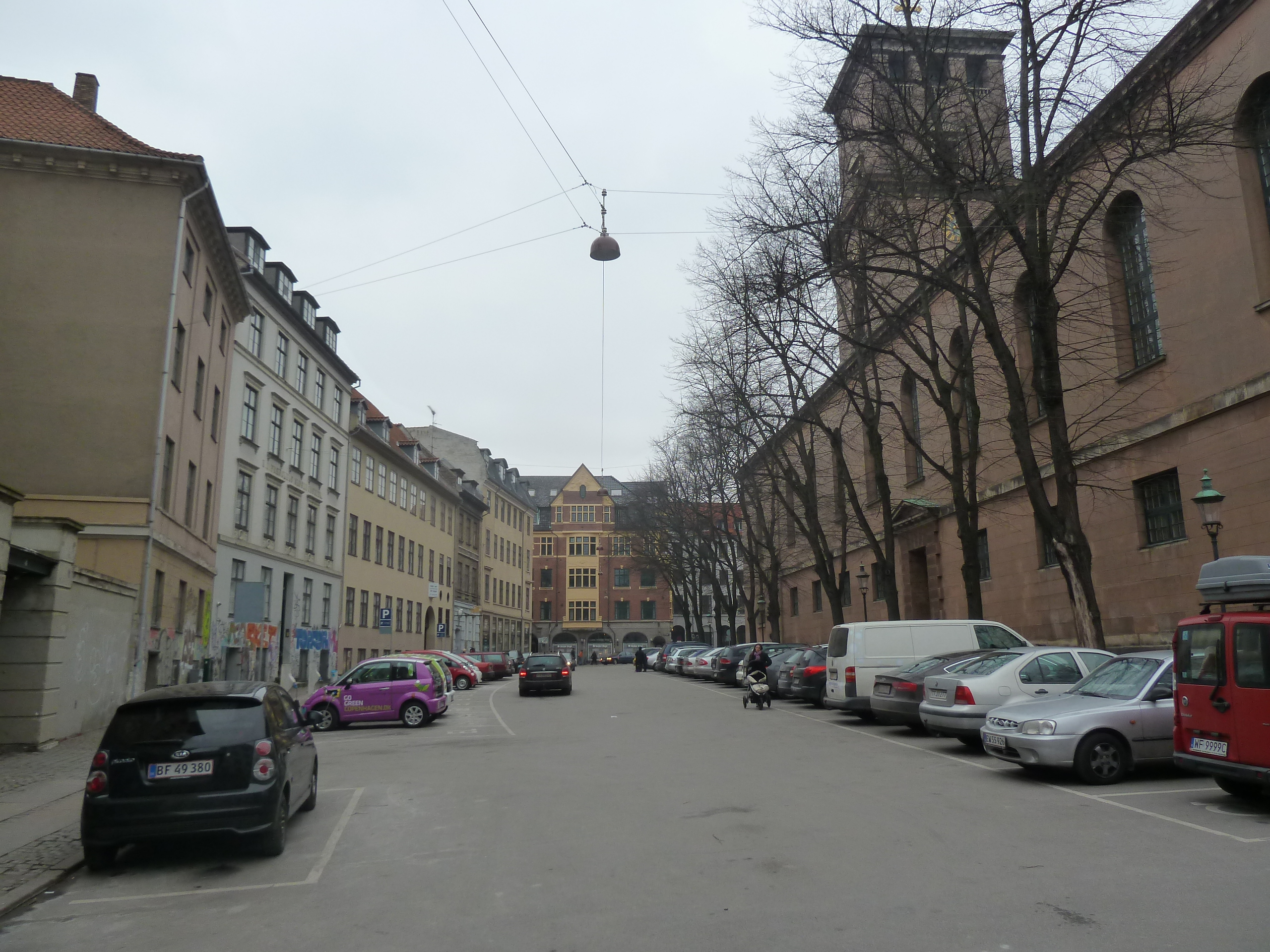 The street Dyrkøb at Copenhagen Cathedral in Indre By in Copenhagen.